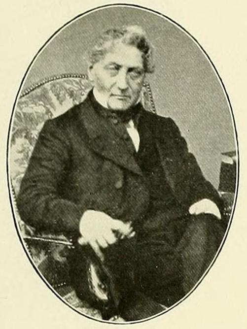 Portrait of the French botanist Jacques Gay